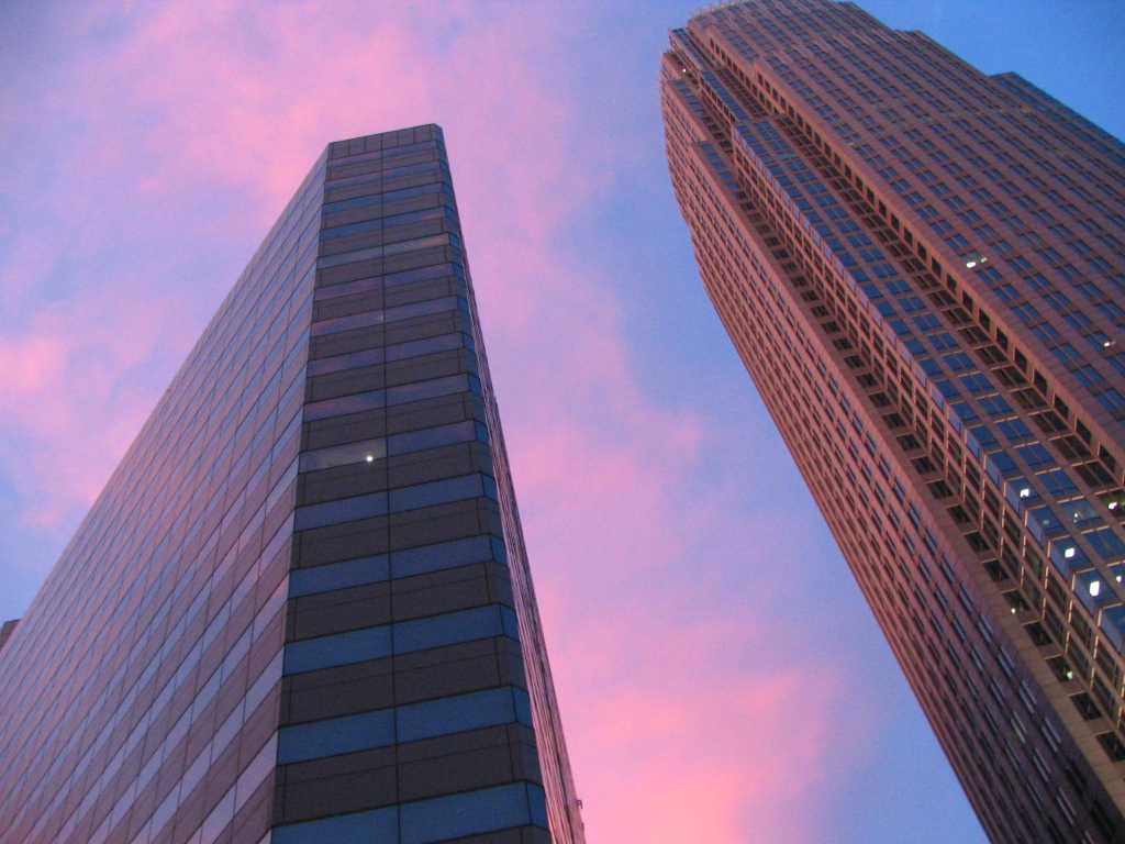 Bank of America Corporate Center (right).